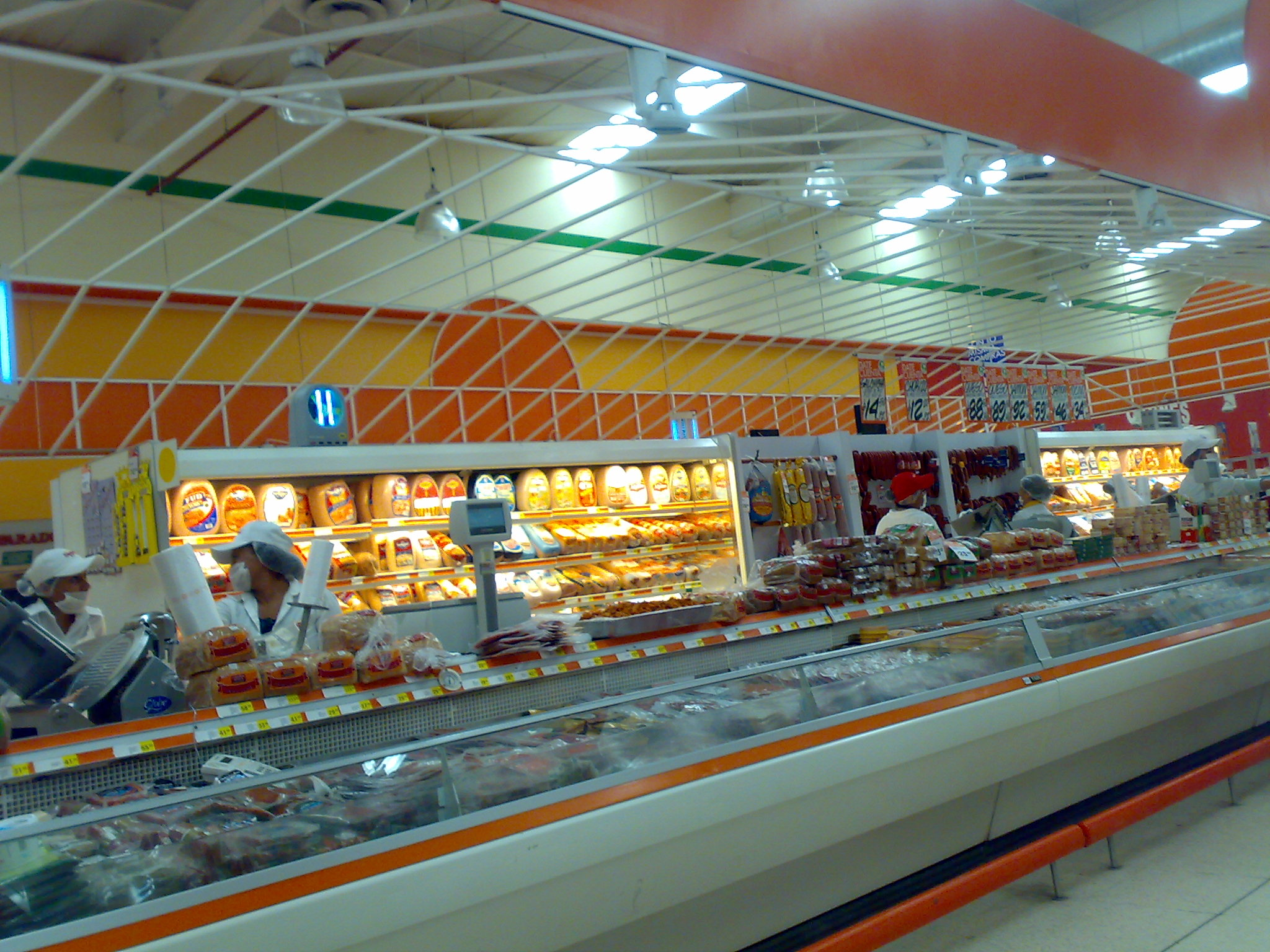 Picture of a typically clean Mexican food store. Picture taken by me